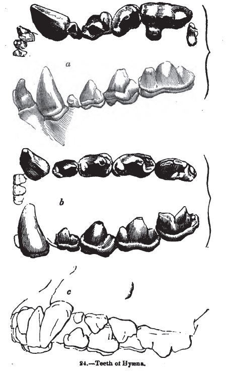 Dentition of a striped hyena